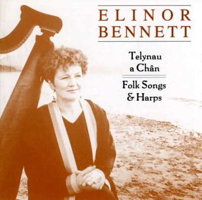 Artwork for the Album Talynau A Chan / Folk Songs & Harps by Elinor Bennett